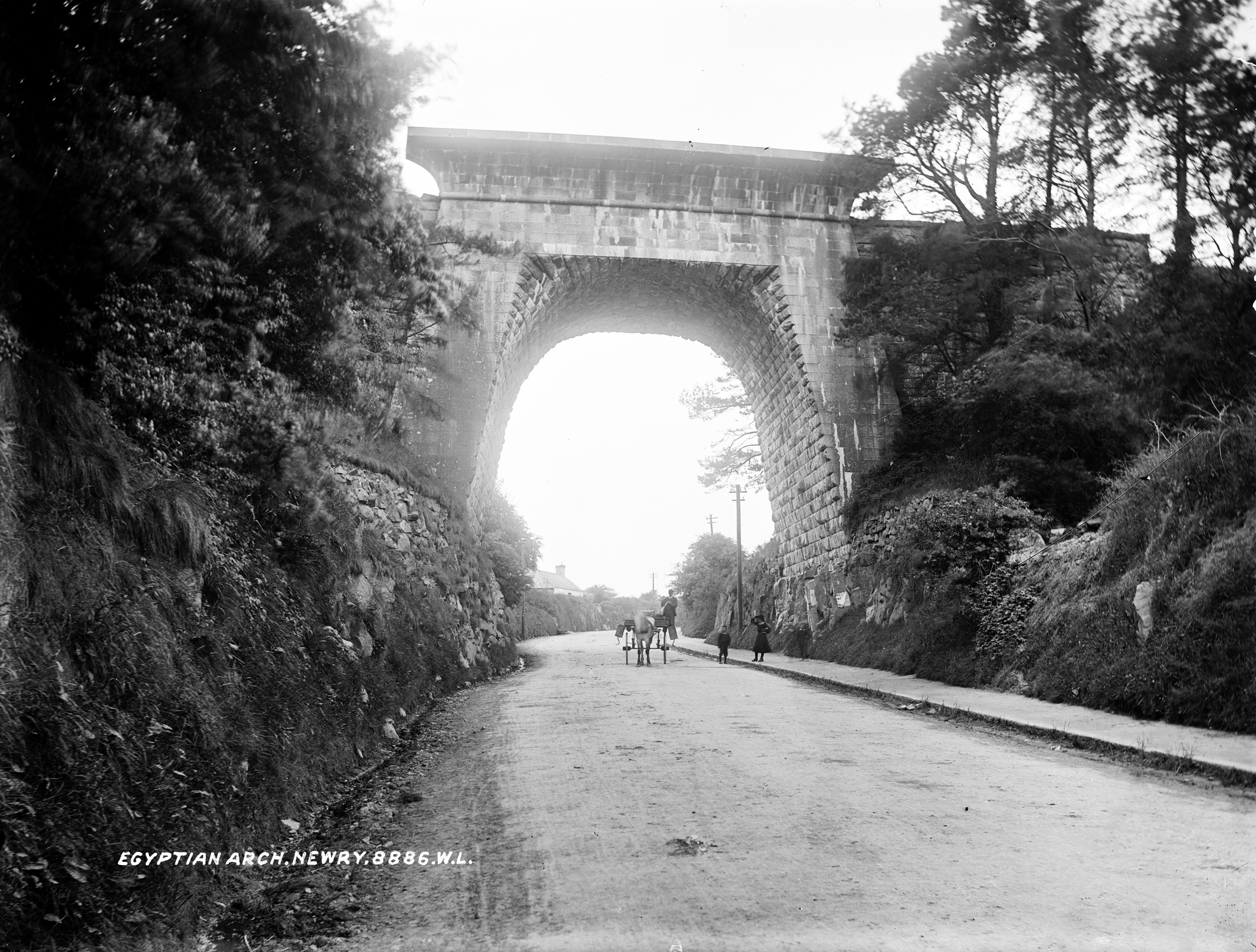 This photo was taken probably by Robert French, chief photographer of William Lawrence Photographic Studios of Dublin. There are fragmentary posters under the arch. From what I can make out, the furthest one has CATT... perhaps a Cattle Mart? But I can definitely make out May, and if it wasn't for a pesky outcrop of rock, we might actually have a year! Unforunately can't make sense of the other poster, as it has folded back on itself, and the one beneath it is not clear either! :( There are 3 children under the arch. Ethereal boy at extreme right moved twice, so we've two ghosty boys for him... Oh, and we have telegraph wires if that's a help! You can compare this view of the Egyptian Arch with its companion photo taken approximately 85 years later as part of the Lawrence Photographic Project 1990/1991, where one thousand photographs from the Lawrence Collection in the National Library of Ireland were replicated a hundred years later by a team of volunteer photographers, thereby creating a record of the changing face of the selected locations all over Ireland. For further information on the Lawrence Photographic Project, read all about it on our NLI Blog. Date: Circa 1905? NLI Ref.: L_ROY_08886